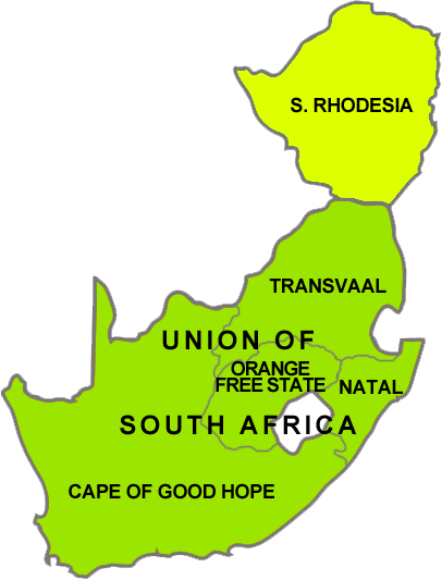 Provinces of South Africa (1910) and Southern Rhodesia (later just Rhodesia). Originally created to illustrate potential accession of the latter to the former during the 1910s and early 1920s.